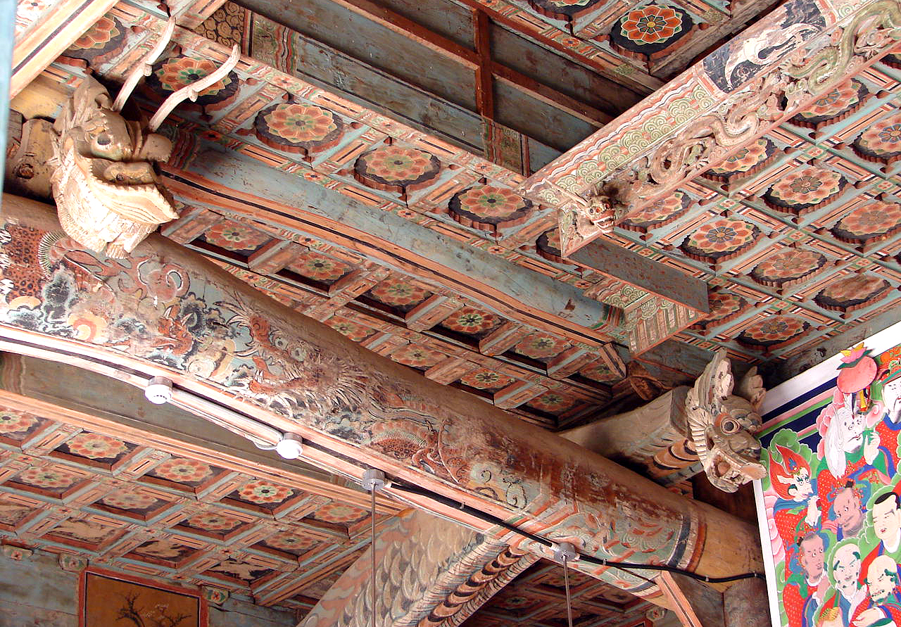 Seonam Temple, Seonamsa, is a Korean Buddhist temple located on the eastern slope at the west end of Mount Jogyesan Provincial Park, within the northern Seungjumyeon District of the city of Suncheon, Jeollanamdo Province, South Korea. The name Seonam (Heavenly Rock) is derived from the legend that a heavenly being once played the game of Go here. Legend states that in 529 CE missionary-monk Ado built a hermitage at this site on the eastern slope of Jogyesan and named it Biroam. 350 years later in 861 National Master Doseon Guksa constructed a grand temple here and named it Seonamsa.